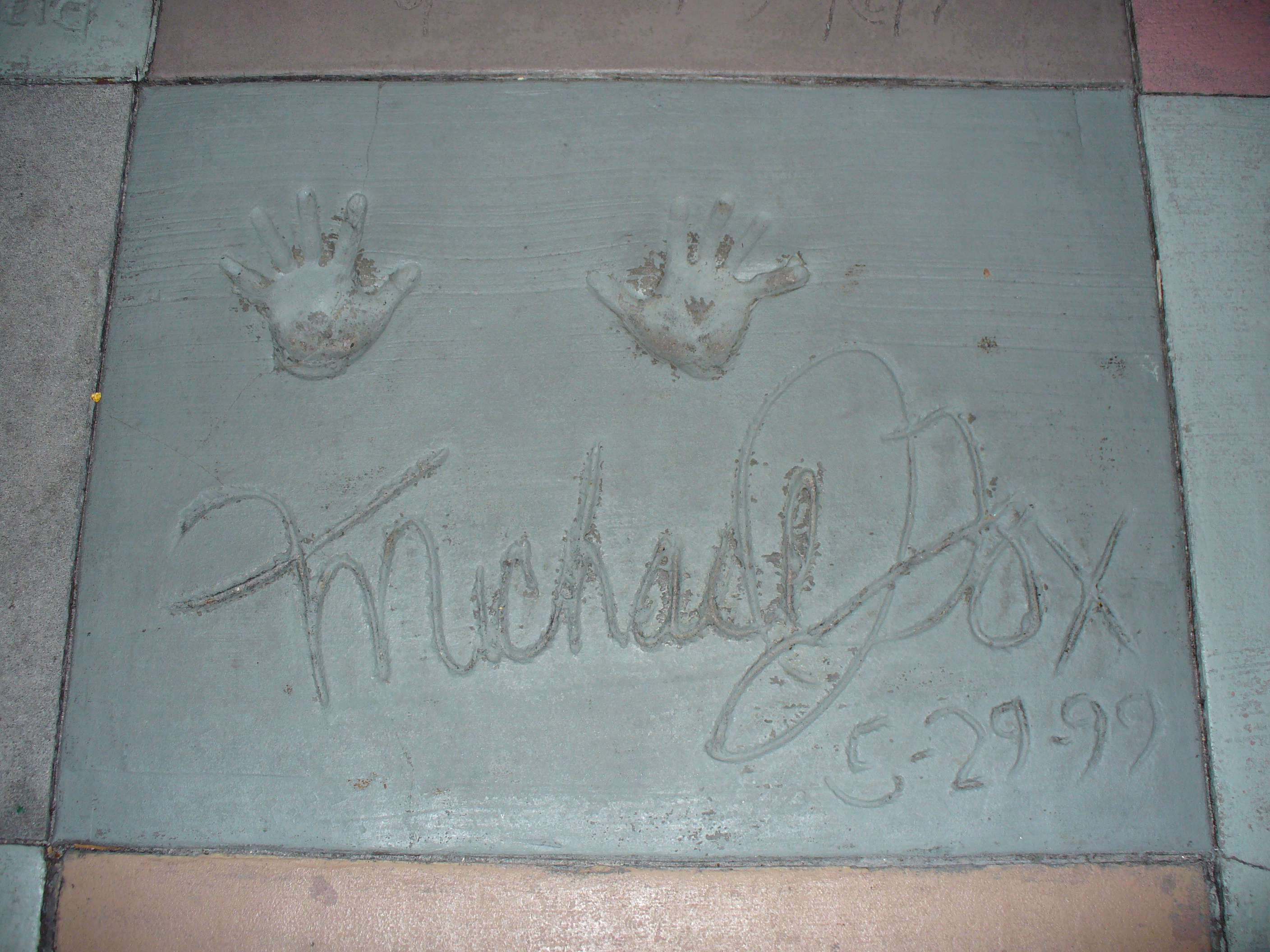 I (User:Neelix) am the originator of this photo. I hold the copyright. I release it to the public domain. This photo depicts the handprints of Michael J. Fox in front of The Great Movie Ride at Walt Disney World's Disney's Hollywood Studios theme park.